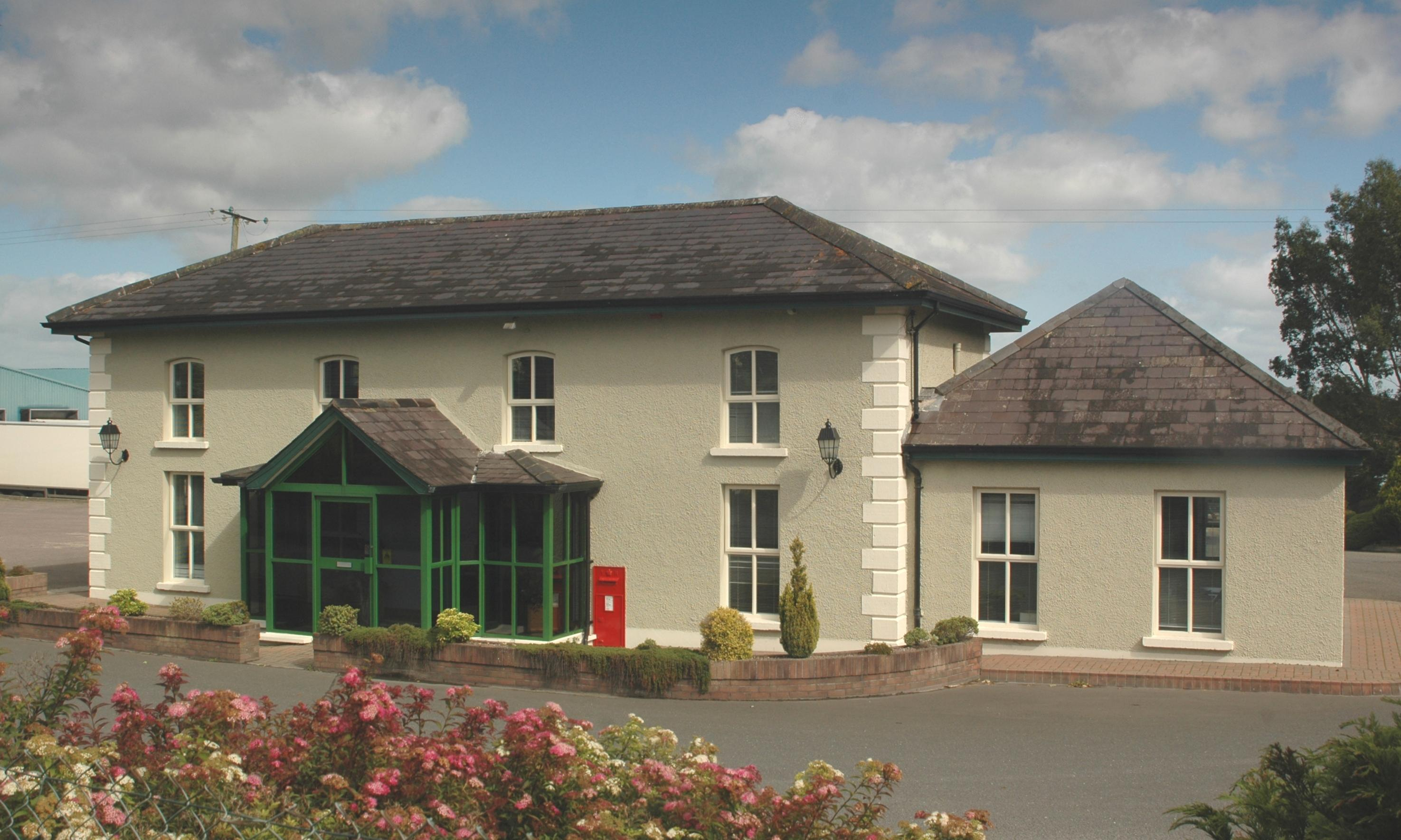 Main building of Trew and Moy former railway station, Co. Tyrone, on the former Portadown, Dungannon and Omagh Junction Railway. This company was absorbed into the Great Northern Railway (Ireland).